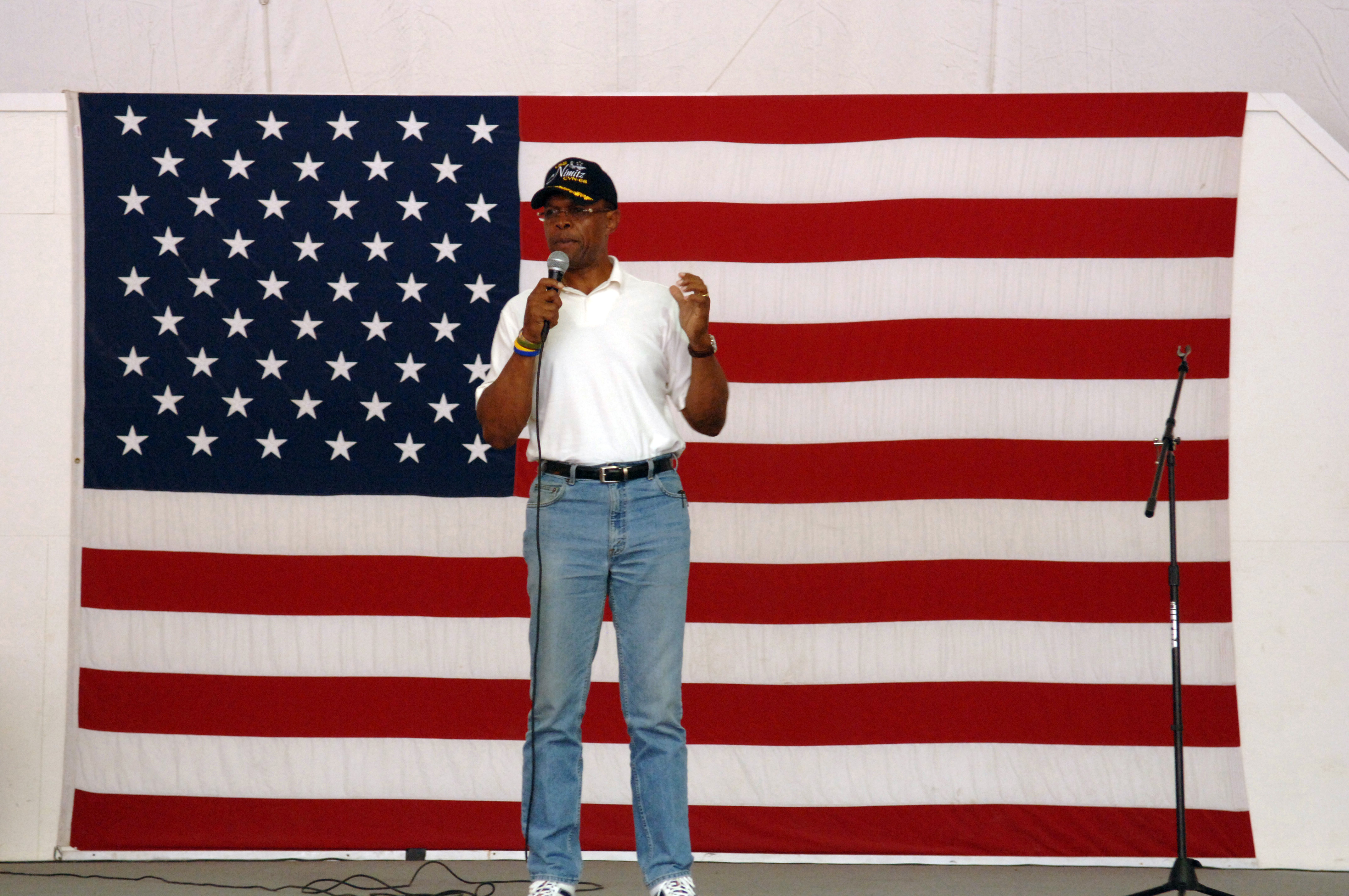 Gayle Sayers, NFL Hall of Famer, speaks to the troops at an USO show on Bagram Air Field, Afghanistan on August 19, 2005. ID: 050819-A-0575B-014